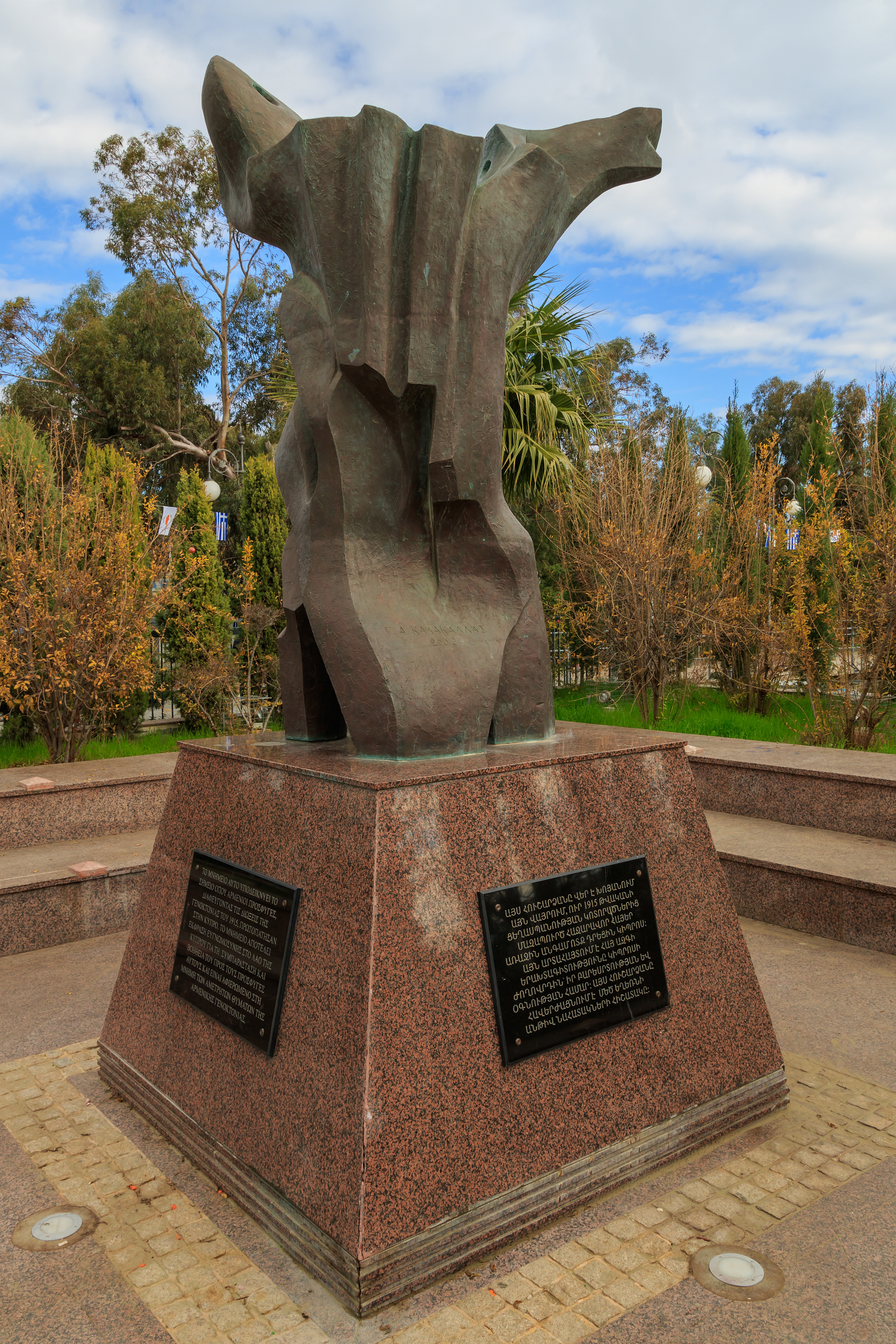 Memorial of the Genocide of Armenians in Larnaca, Cyprus